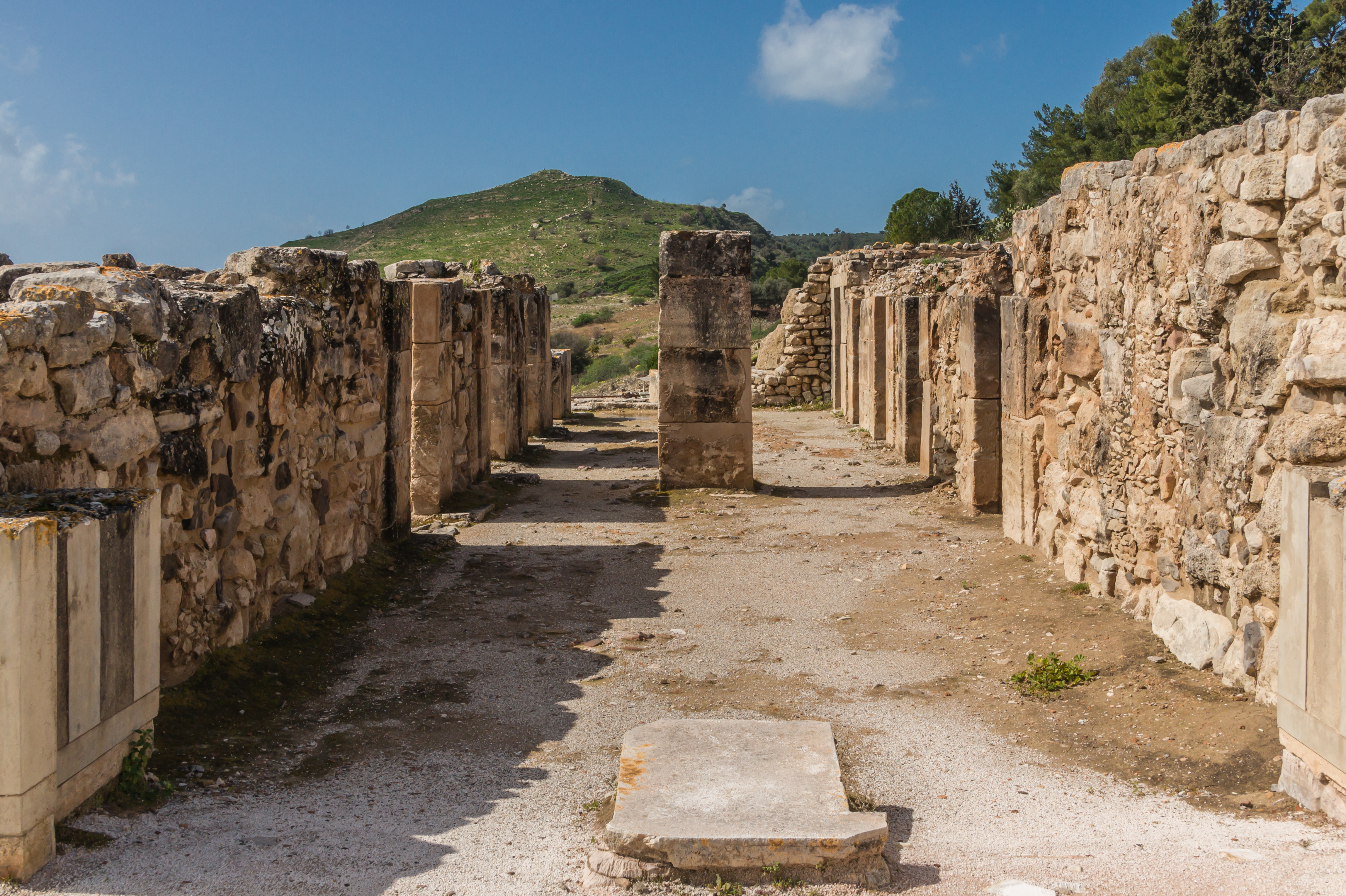 A street in archaeological site of Phaistos, Crete, Greece.